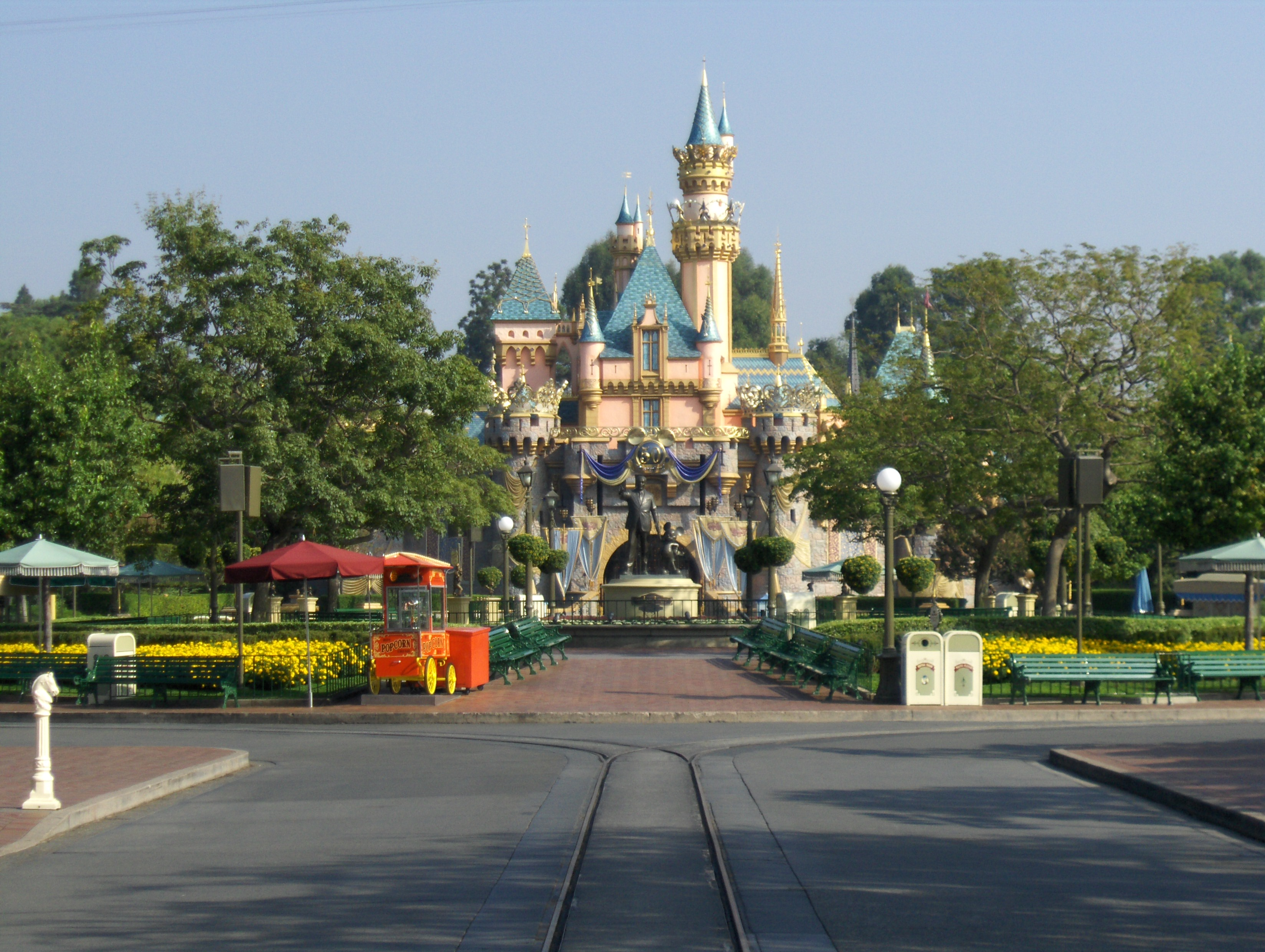 Sleeping Beauty Castle photo from Main Street.